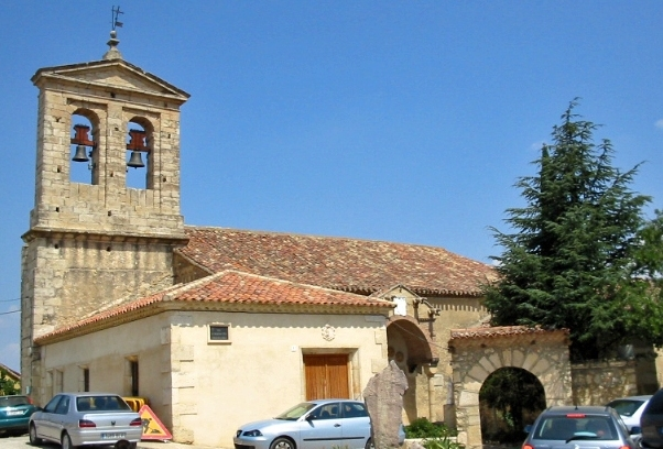 Carboneras of Guadazaon church